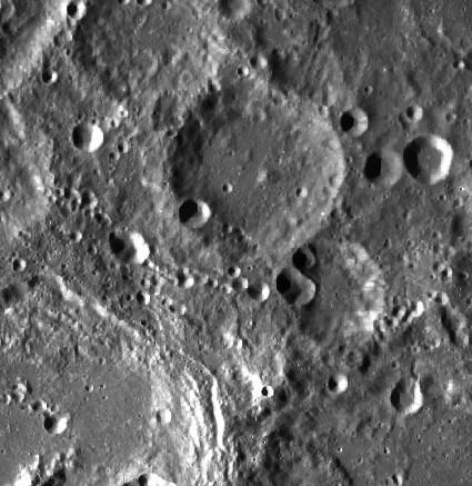 LROC image: Stratton at upper center, below are the big polygonal craters Keeler (left) and Heaviside (right)